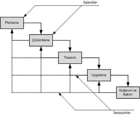 Five phases of the system life cycle.